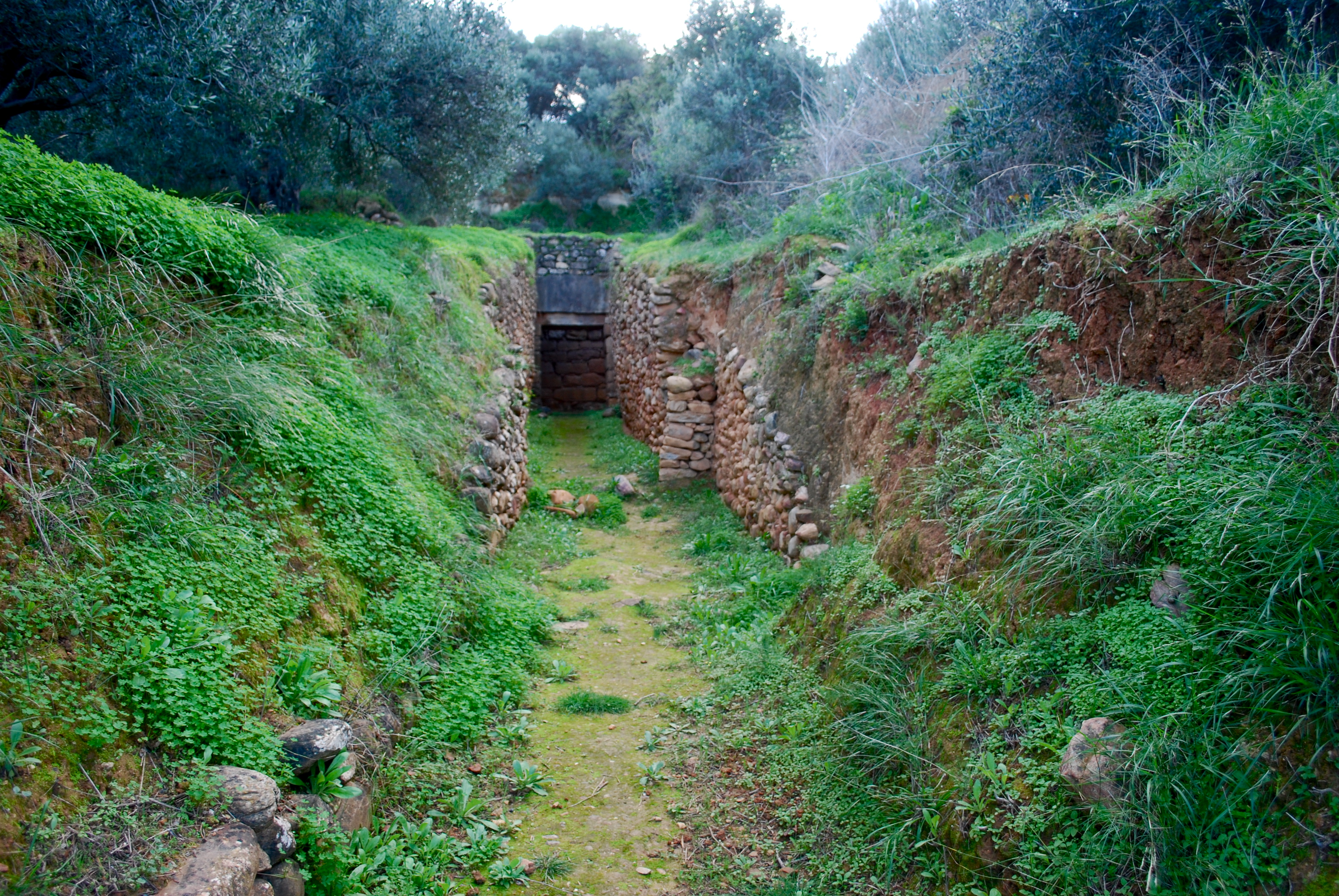 Minoan tholos tumb near Maleme Minoan tholos tumb near Maleme